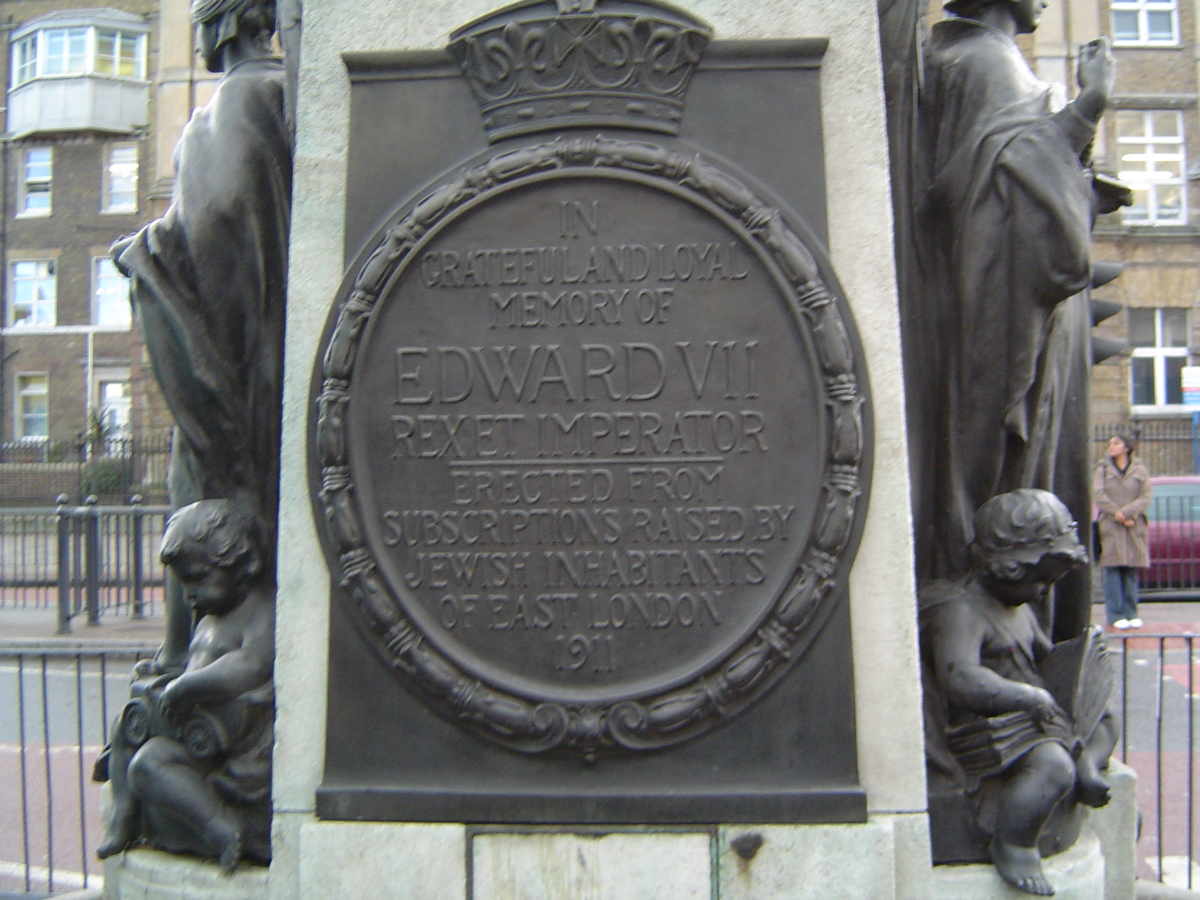 Edward VII plaque at Whitechapel Market, London, UK